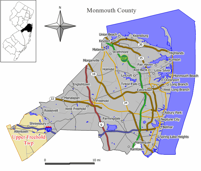 Locator map of Upper Freehold Township in Monmouth County, New Jersey